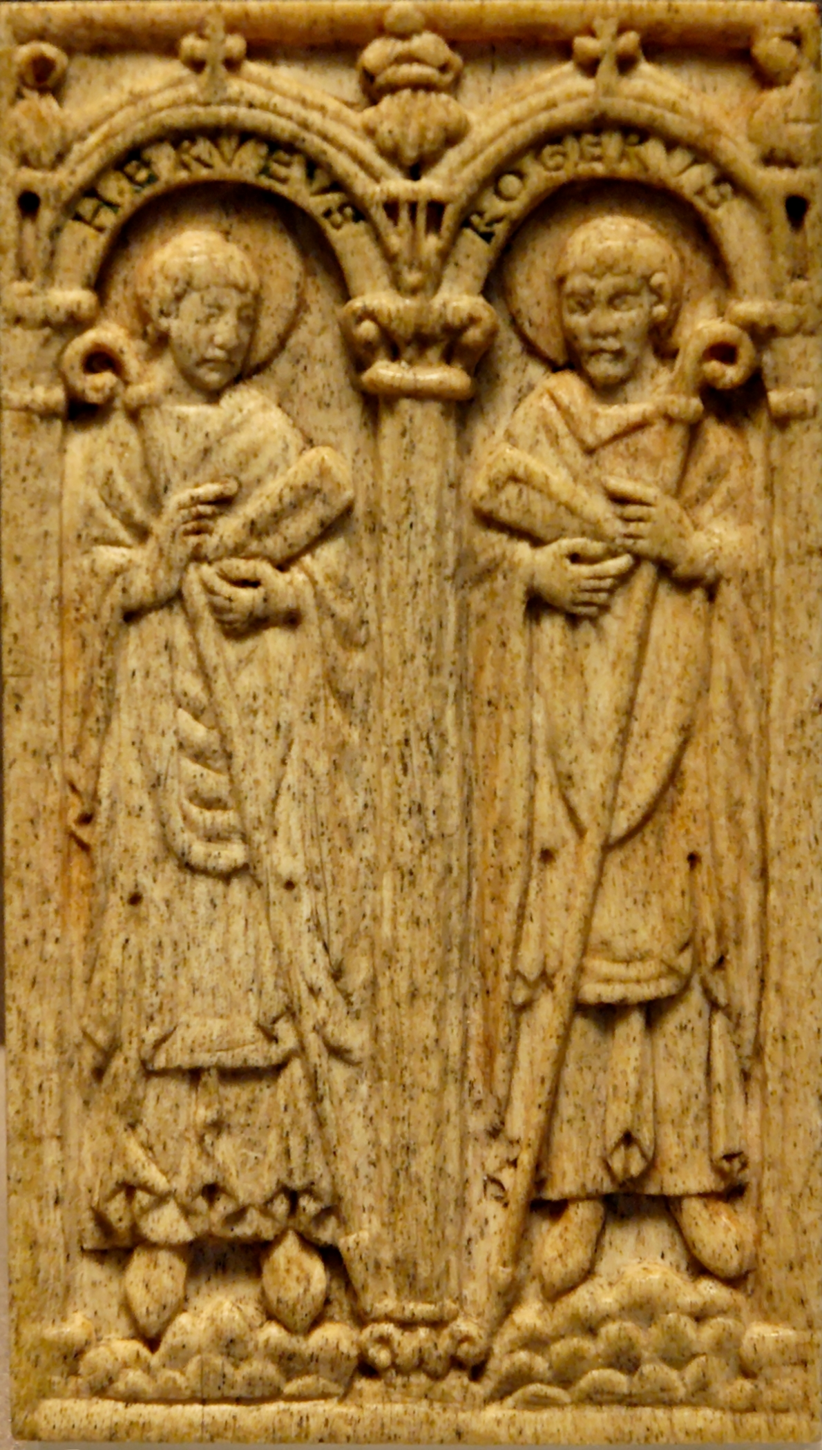 Herveus and Rogers, two bishops of Beauvais of the 10th and 11th centuries. From the binding of a pontifical (book of ceremonies performed by a bishop) of the cathedral of Beauvais, France. Cetacean ivory, polychromic inlays and gilt traces.